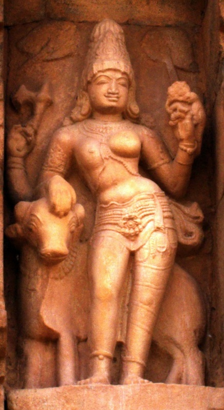 ardhanari, Gangaikonda